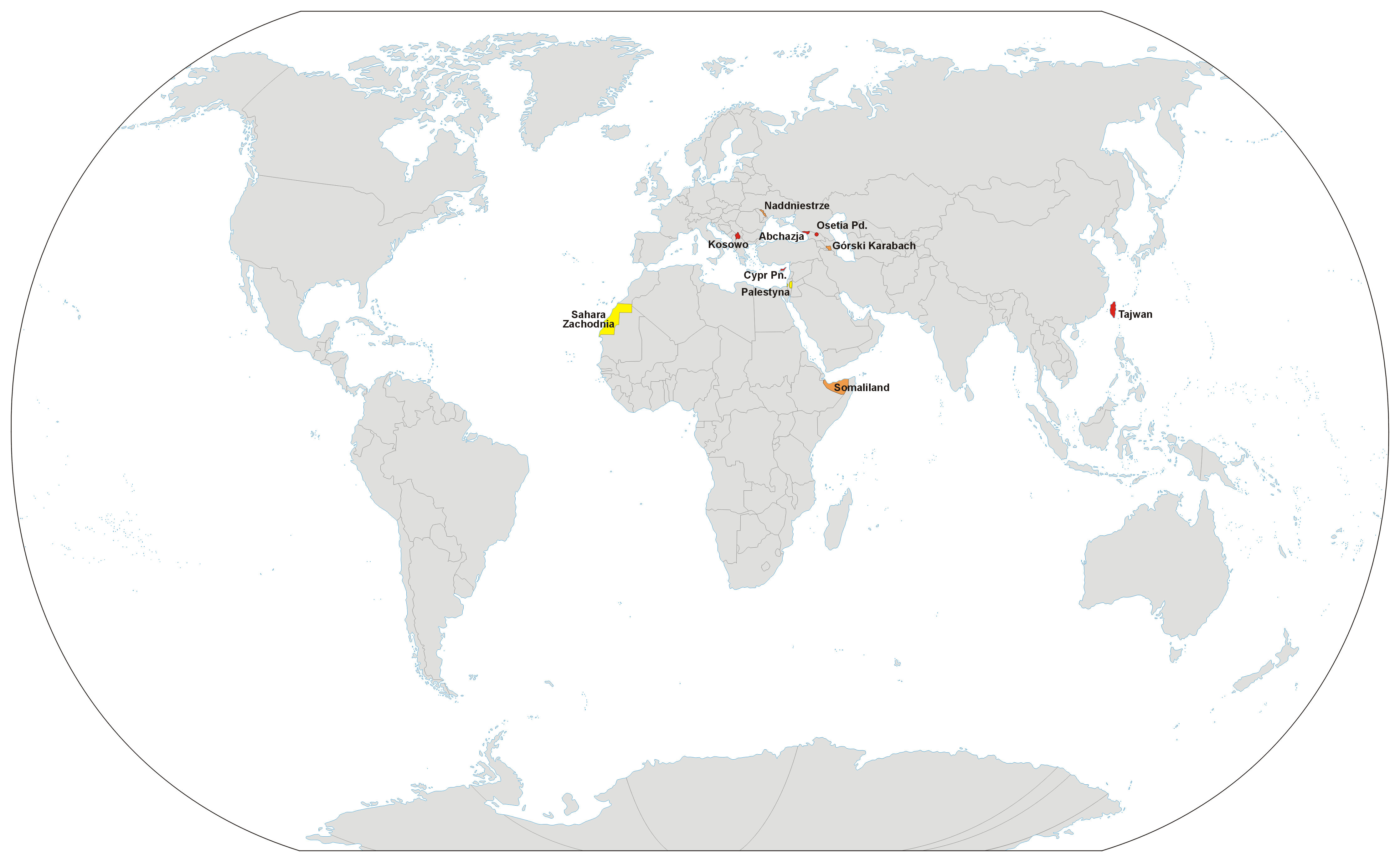 Unrecognized countries